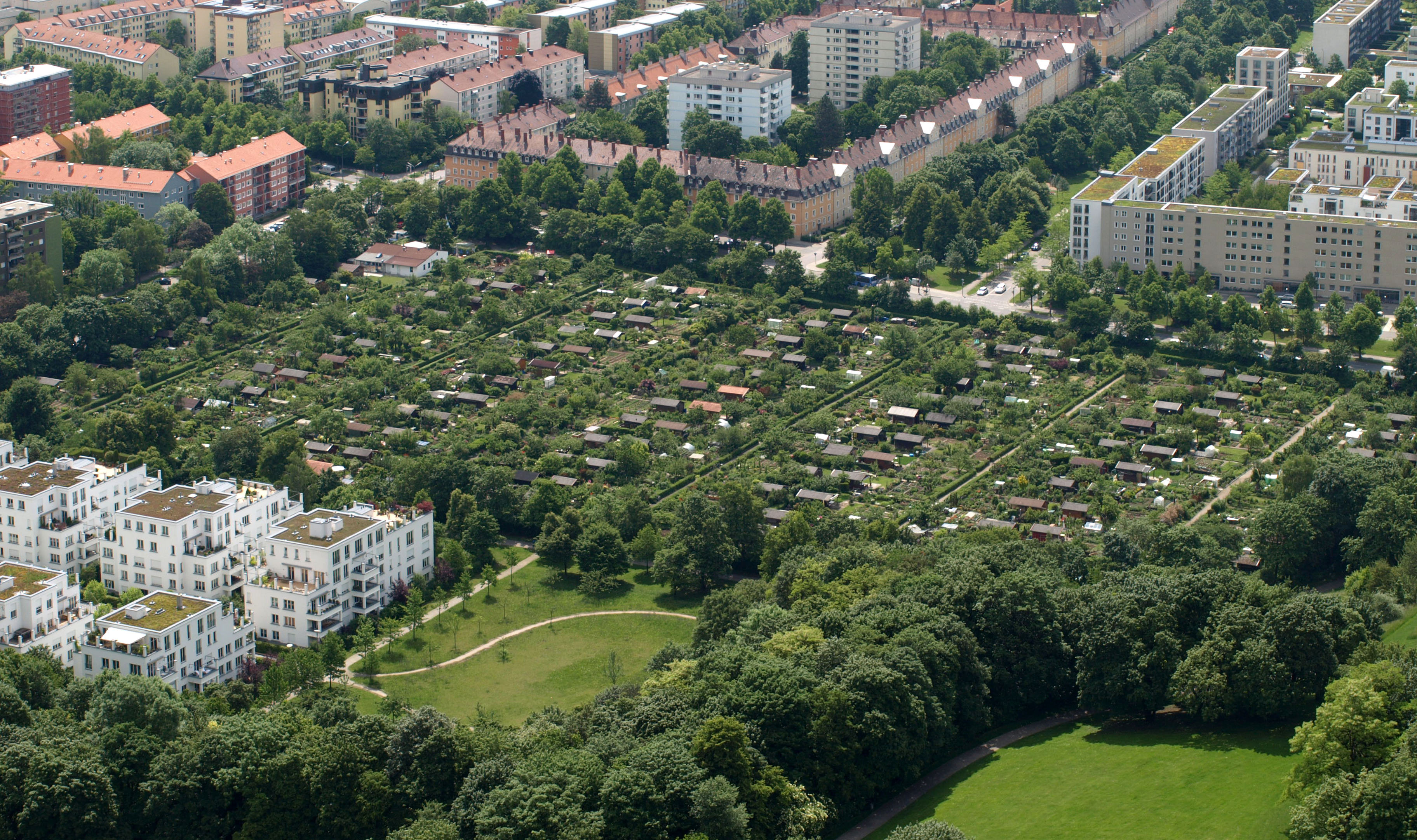 Allotment in Munich, photo taken from the Olympiaturm